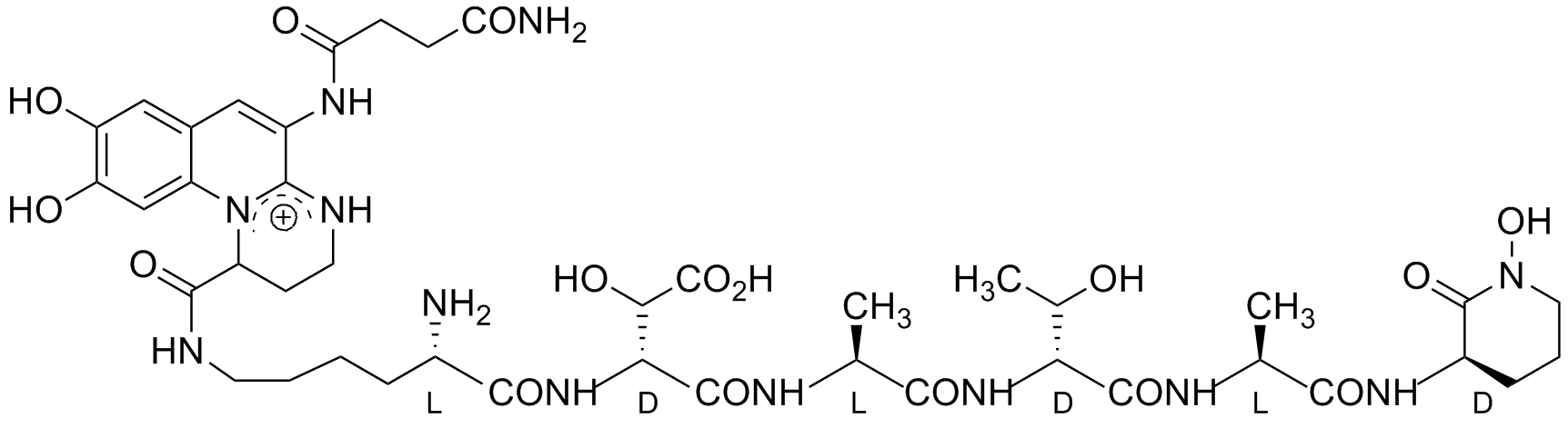 Pyoverdine